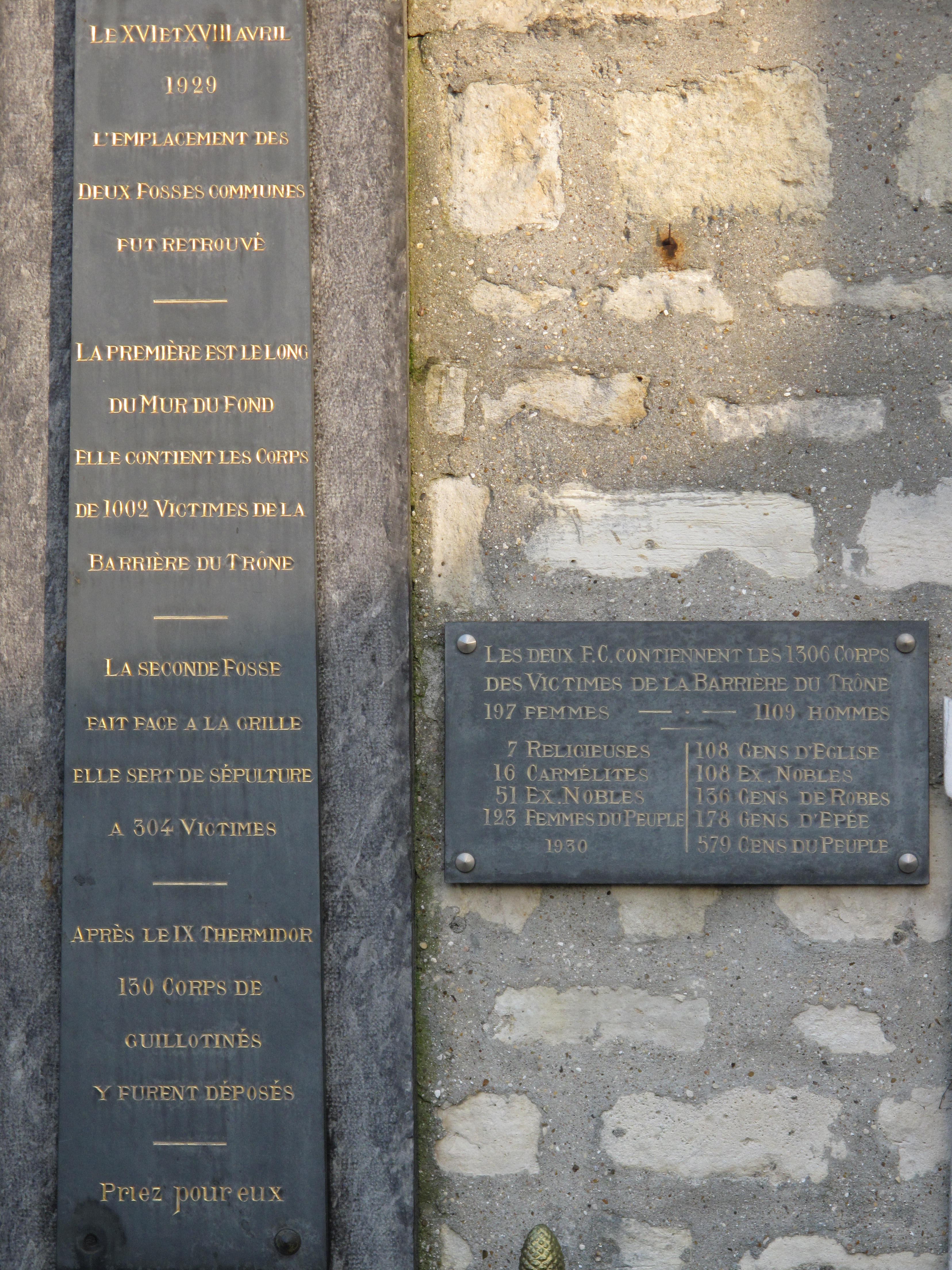 Plaques at the entrance of the field of the common graves where were buried people executed by guillotine during the Reign of Terror in june 1794. Cemetery of Picpus, Paris 12th arr., France. The text of the plaque on the right is : The two common graves contains 1,306 corpses : 197 women : 16 carmelites, 7 other nuns, 51 nobles and 123 commoners 1109 men : 108 churchmen, 108 nobles, 136 magistrates, 178 militaries and 579 commoners